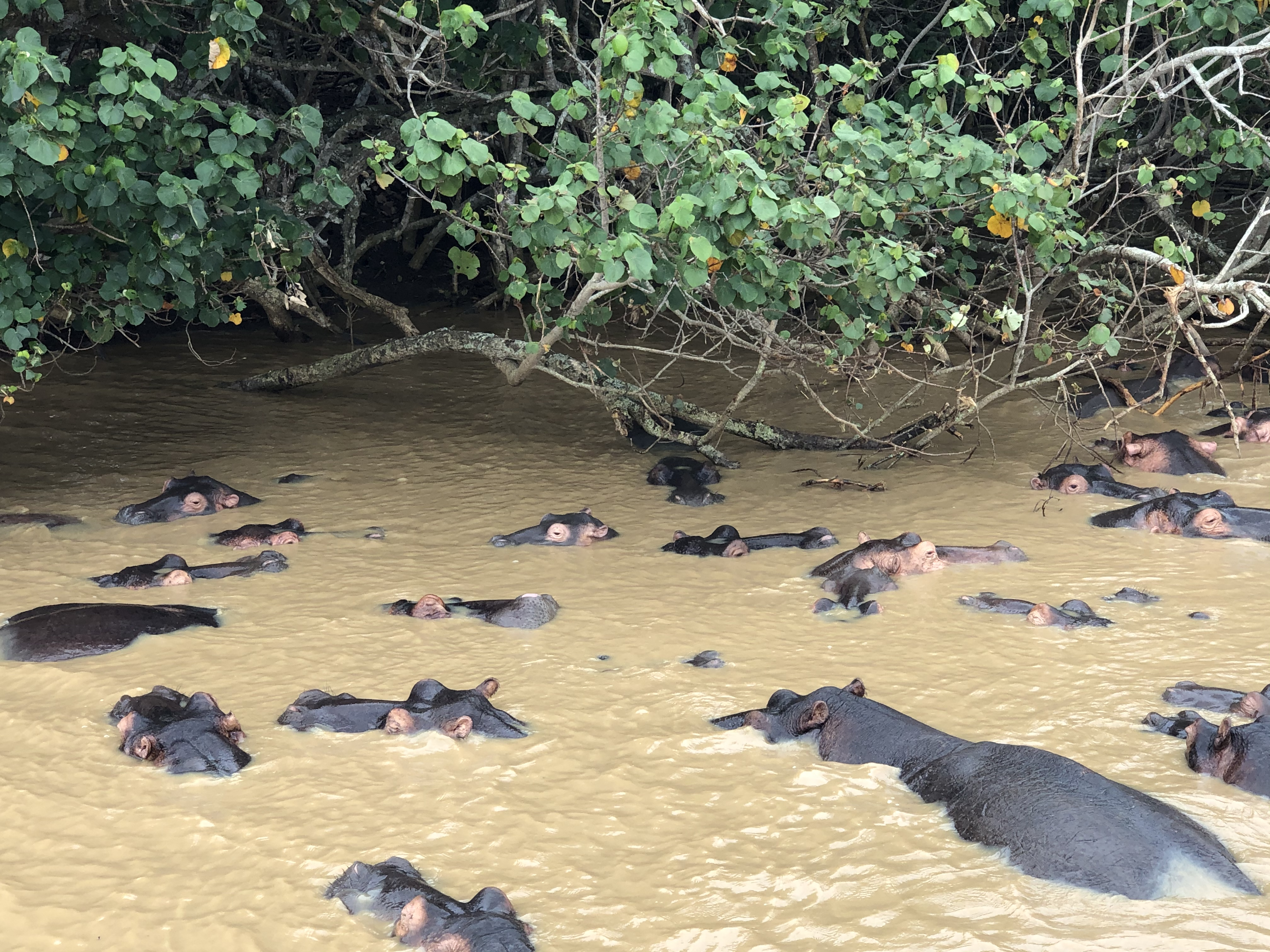 This is an image with the theme "Africa on the Move or Transport" from: South Africa